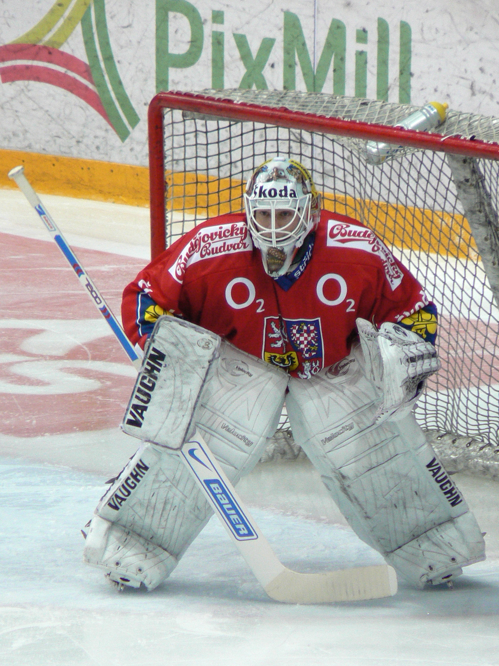 Czech ice hockey player Tomáš Duba tending the goal of his national team in an LG Hockey Games / Euro Hockey Tour match against Finland in Tampere, Finland, February 2008.